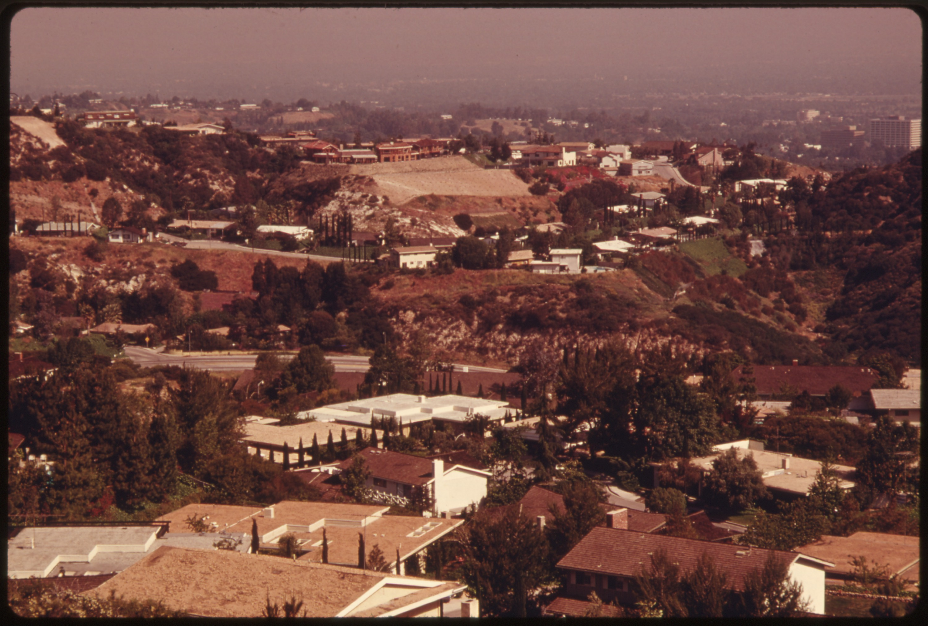 General notes: — Suburban development in Woodland Hills, near Mulholland Drive and Topanga Canyon Boulevard, in the San Fernando Valley, Los Angeles, in 1975.